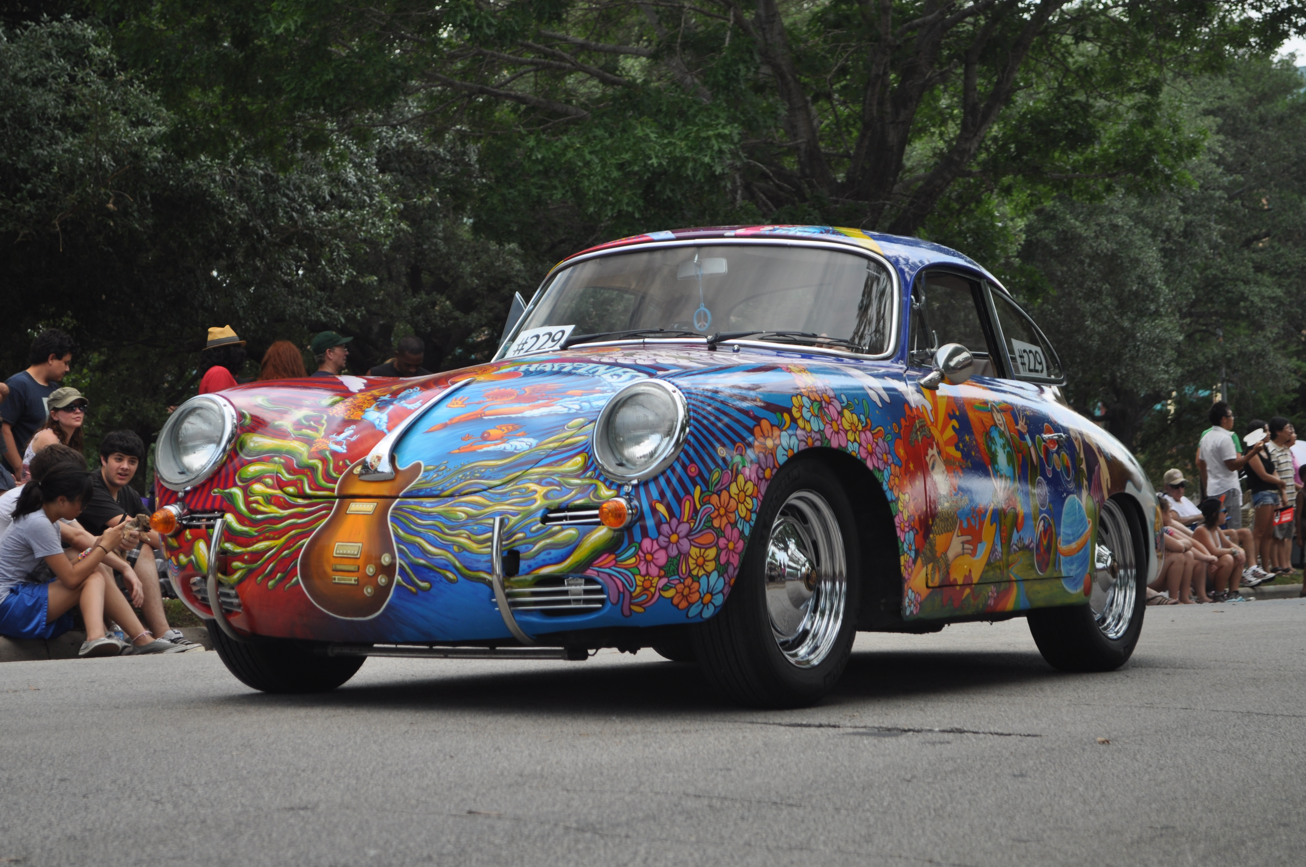 A Porsche 356 Art Car by Robynn Sanders at the 2011 Houston Art Car Parade